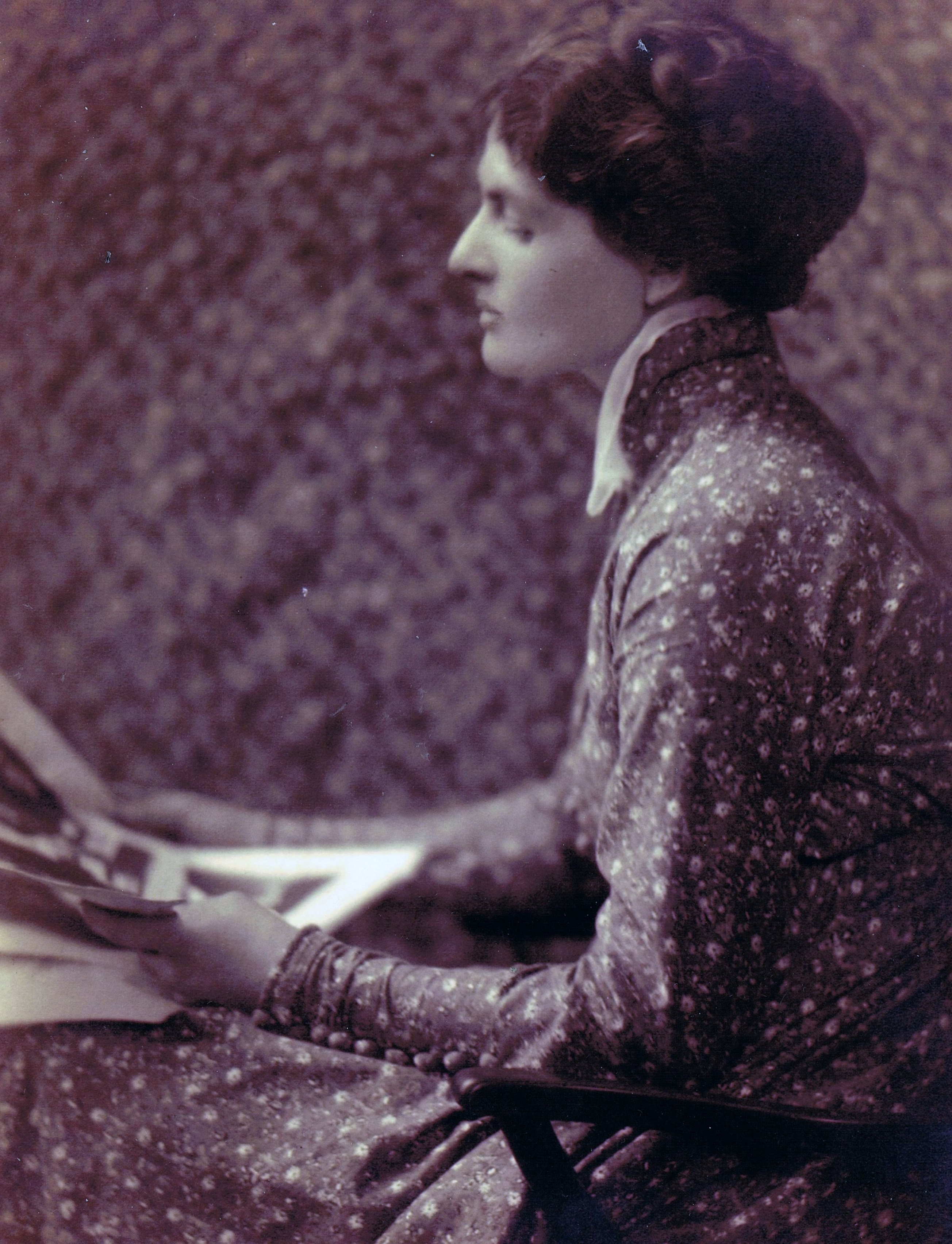 Photograph of Ethel Gabain